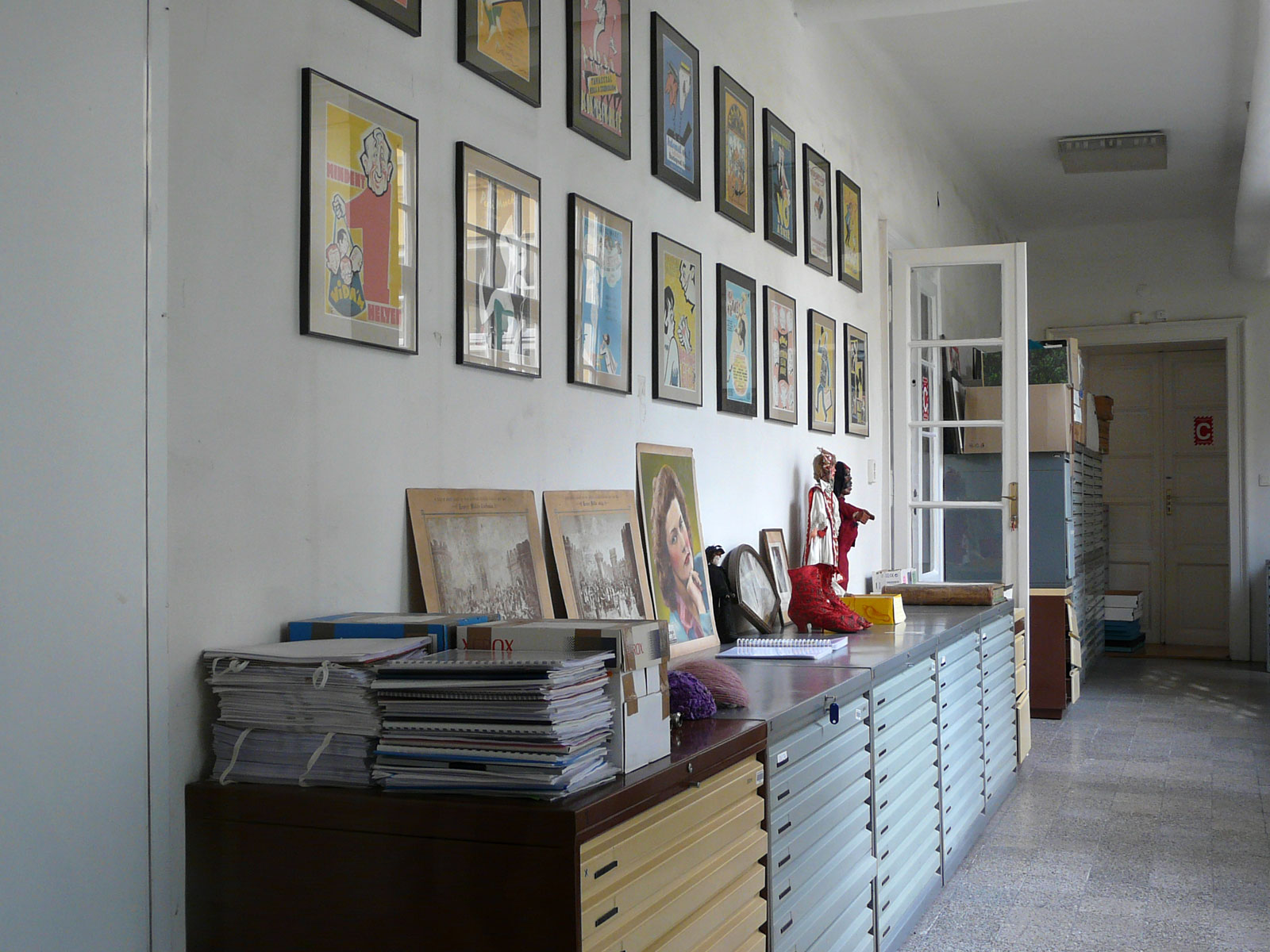 The Museum and Institute of Theatre history, Budapest, Hungary